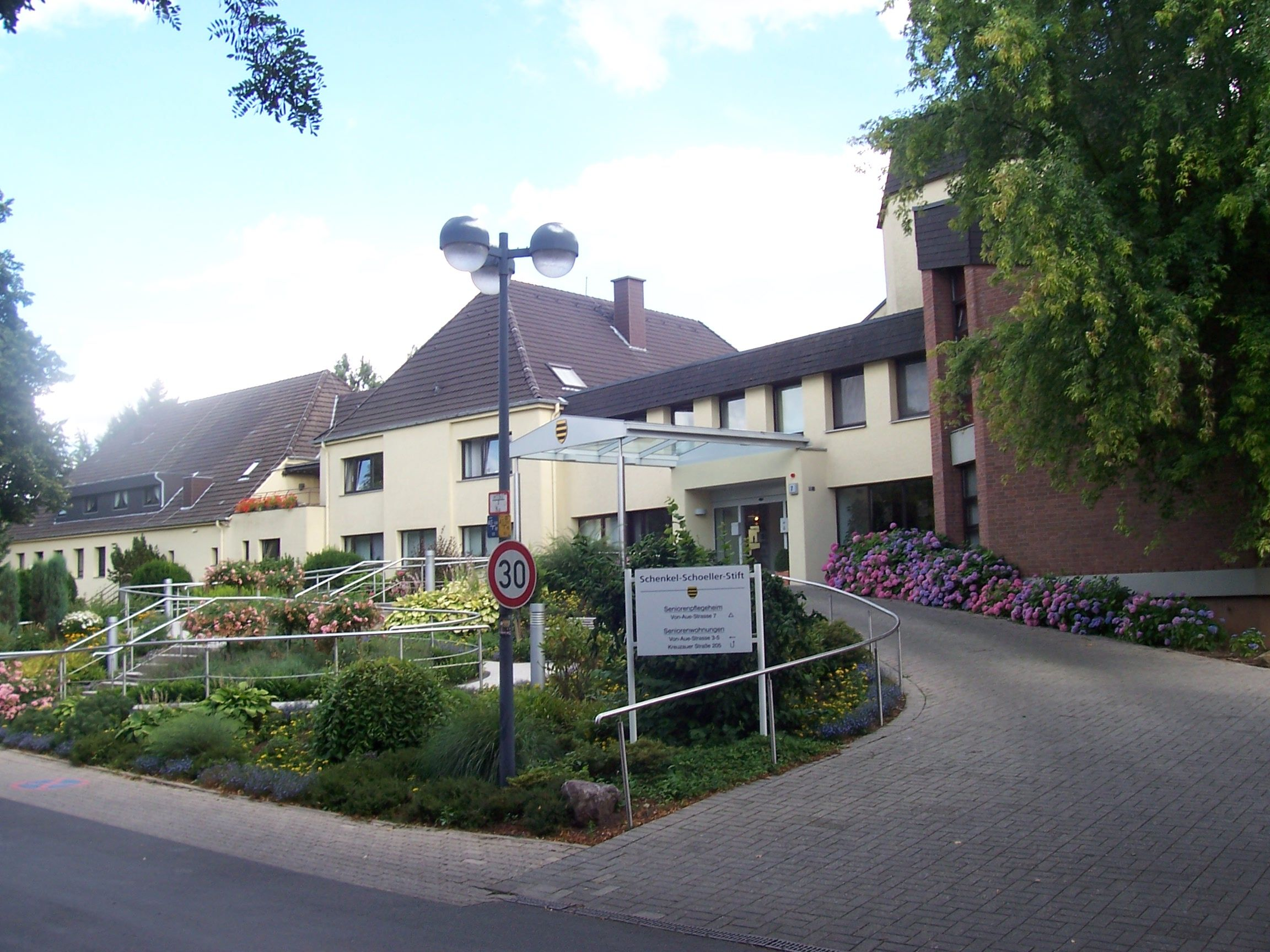 the Schenkel-Schoeller-Stift, a retirement home in Düren-Niederau